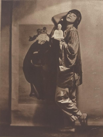 Marion Wilbanks, of "Hitchy-Koo 1920", photograph by Hixon-Connelly K. C., from a 1921 publication.